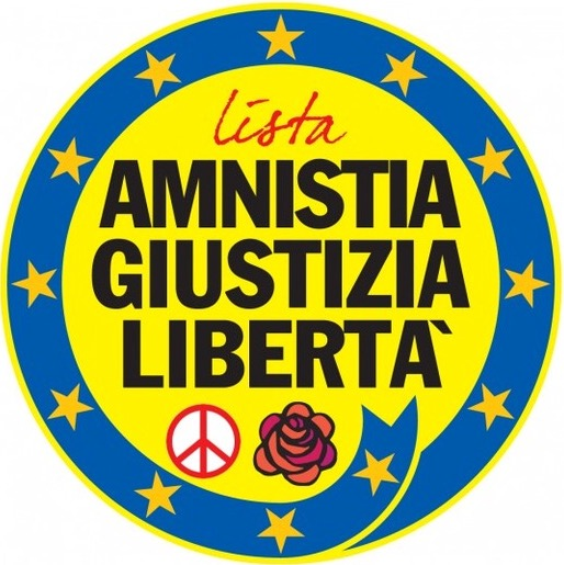 Logo of Amnistia Giustizia Libertà